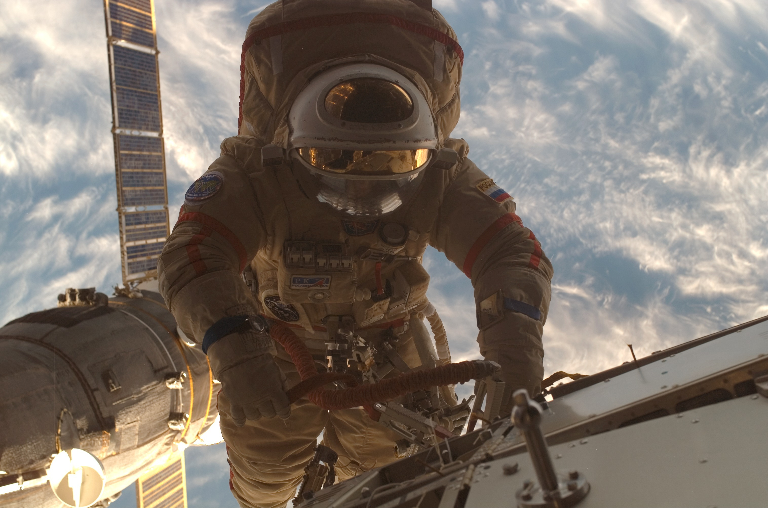 Cosmonaut Fyodor N. Yurchikhin, Expedition 15 commander representing Russia's Federal Space Agency, wearing a Russian Orlan spacesuit, participates in a session of extravehicular activity (EVA). Among other tasks, Yurchikhin and cosmonaut Oleg V. Kotov (out of frame), flight engineer representing Russia's Federal Space Agency, completed the installation of 12 more Zvezda Service Module debris panels and installed sample containers on the Pirs Docking Compartment for a Russian experiment, called Biorisk, which looks at the effect of space on microorganisms.